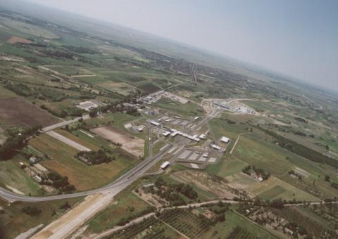 Aerial view of the Rözske-Horgoš border crossing, main connection between Serbia and Hungary